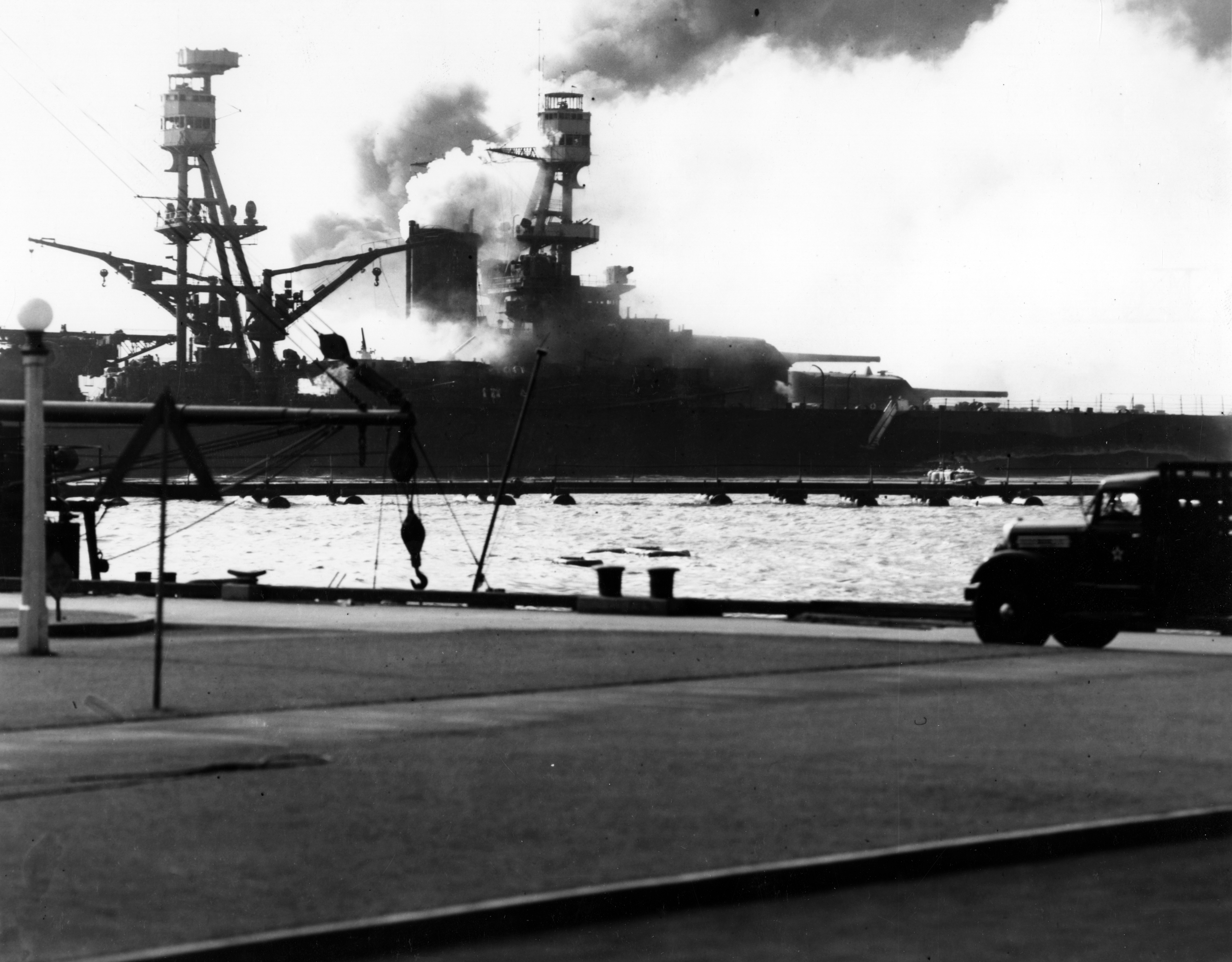 0905 hrs, 7 December 1941: The U.S. Navy battleship USS Nevada (BB-36) heading down the channel, afire from several Japanese bomb hits, as seen from Ford Island during the later part of the attack. Ths ship whose boom and flagstaff are visible at left is USS Avocet (AVP-4). Note camouflage Measure 5 false bow wave painted on Nevada.